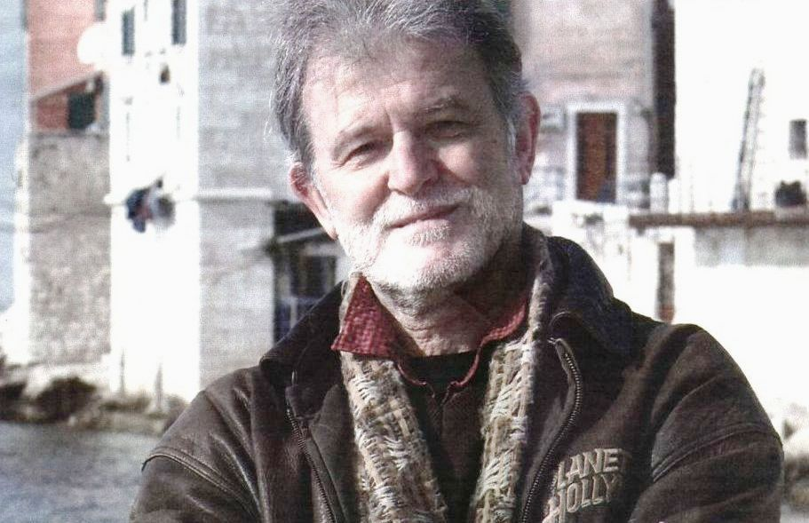 Veljko Despot in Rovinj